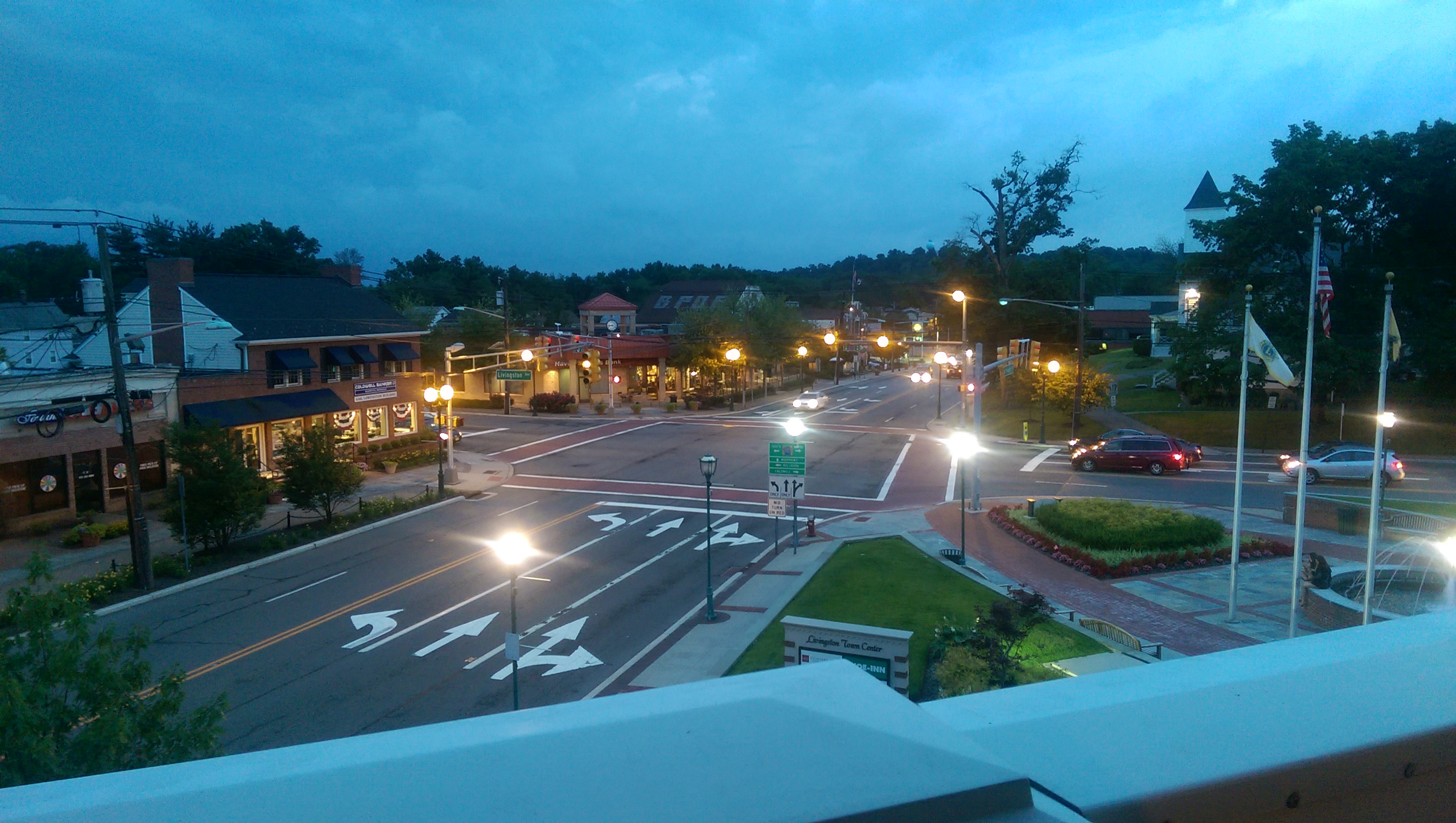 Photo of the main intersection in Livingston, NJ, USA [Livingston Ave, & Mt Plesant Ave (State Route 10)] in the evening. Taken from the 2nd floor of the Livingston Town Center.